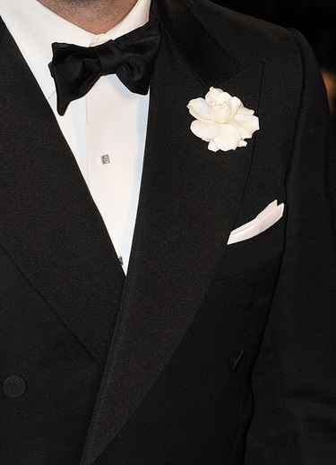 Tom Ford at 2009 Venice Film Festival